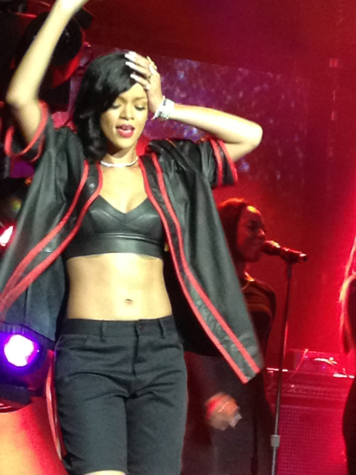 rihanna yes